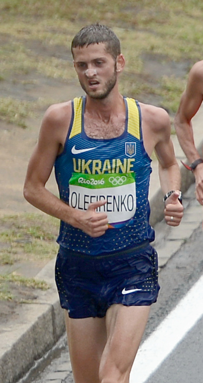 Rio de Janeiro - Sob chuva forte atletas da maratona masculina passam pelo aterro do Flamengo (Tânia Rêgo/Agência Brasil)